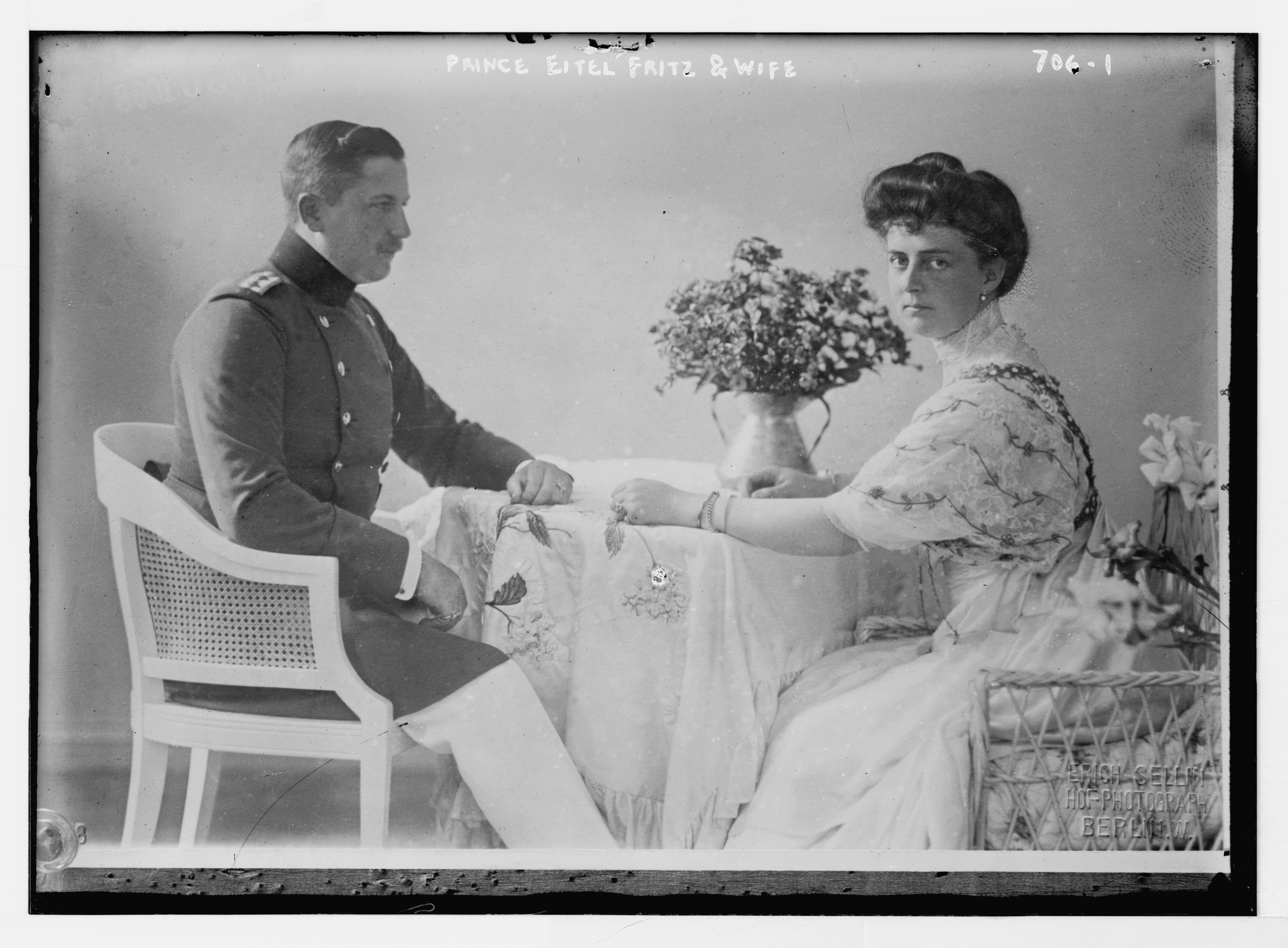 Title: Prince Eitel Fritz and wife, seated at table Abstract/medium: 1 negative : glass ; 5 x 7 in. or smaller.